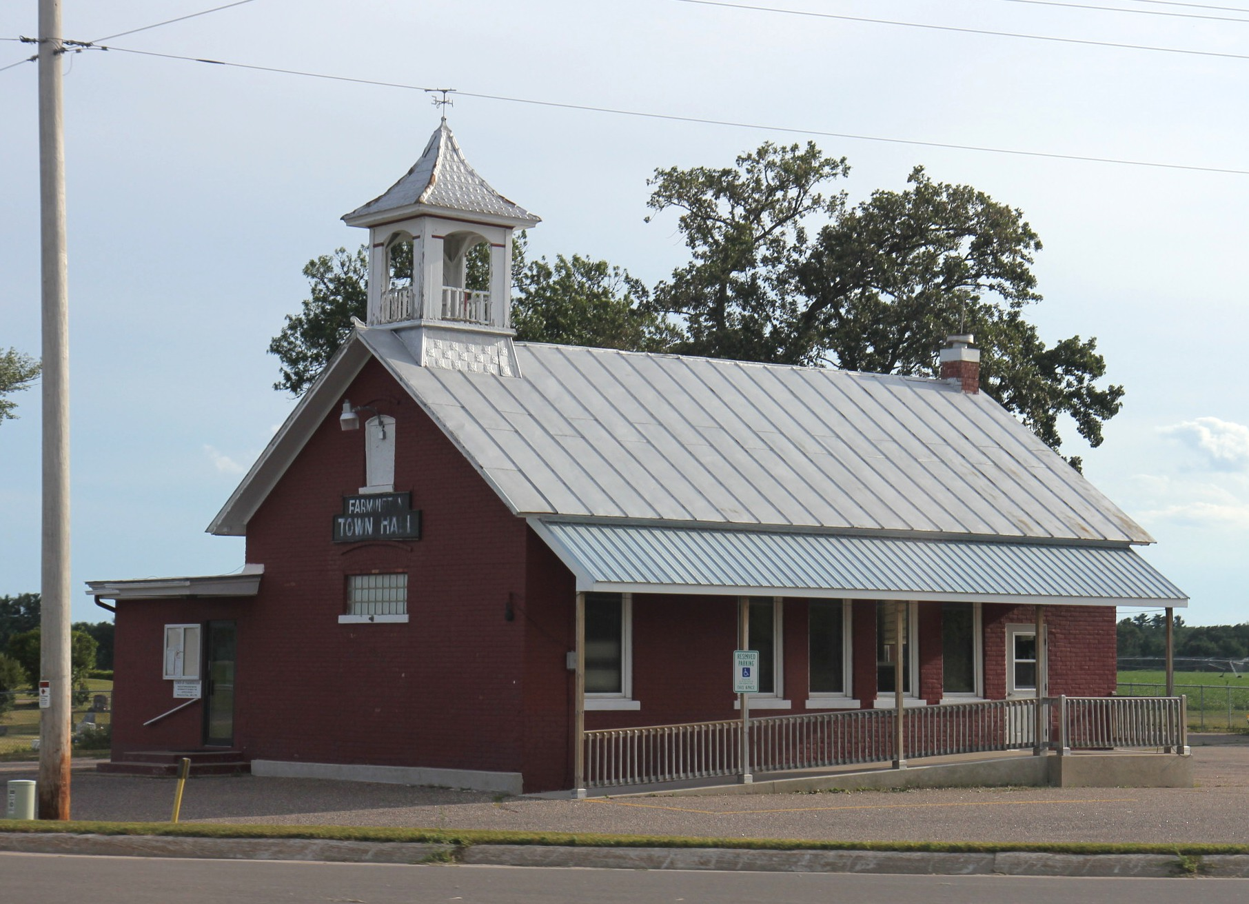 The town hall for Farmington, Waupaca County, Wisconsin along Wisconsin Highway 54.